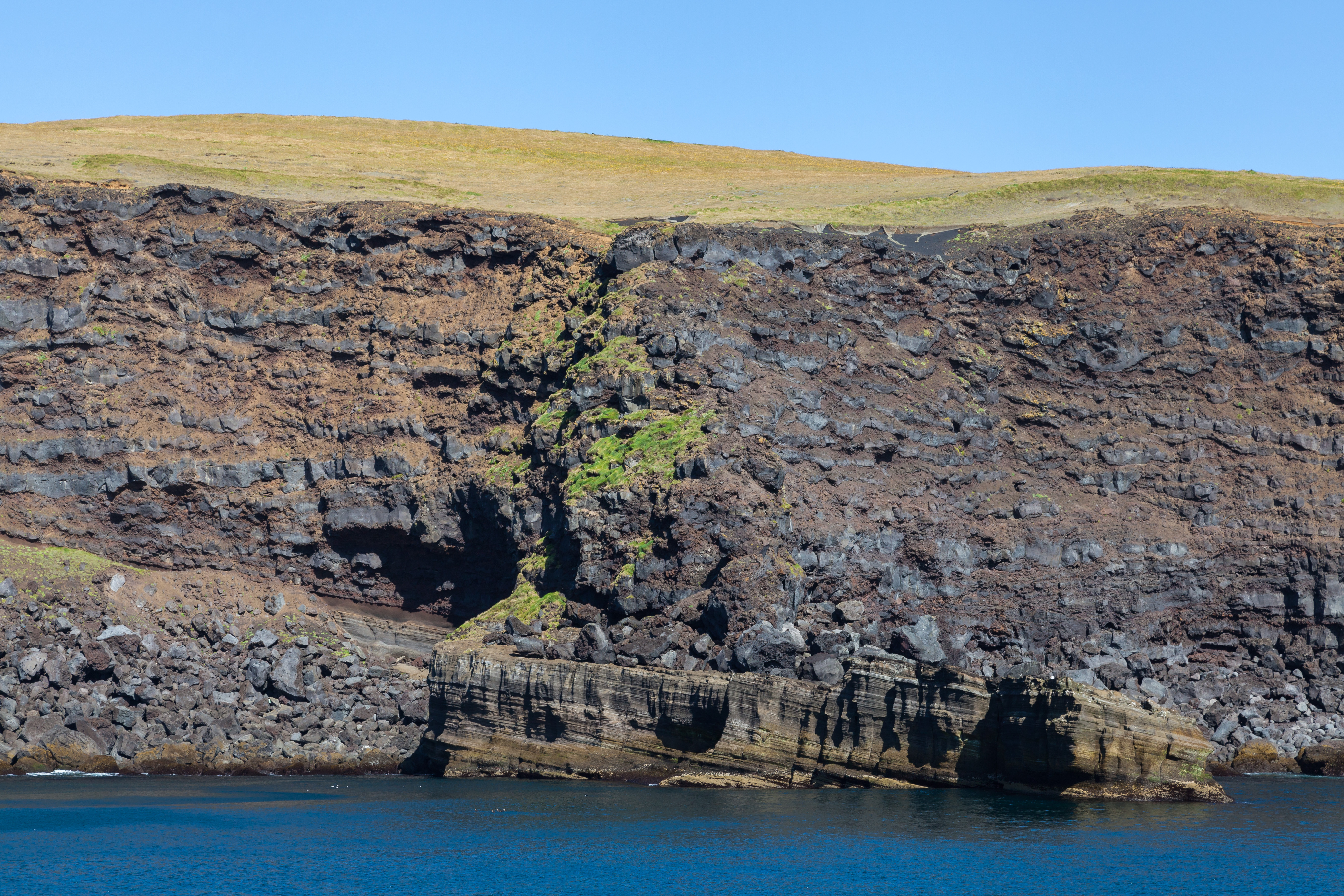 Cliffs of Heimaey, Westman Islands, Suðurland, Iceland